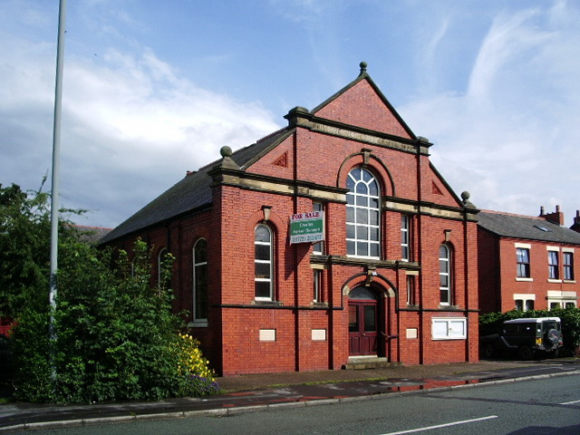 Up for Sale The Methodist Church in the Seven Stars area of Leyland, like so many churches of the faith it is being sold, it being through lack of attendance or in need of major repair.